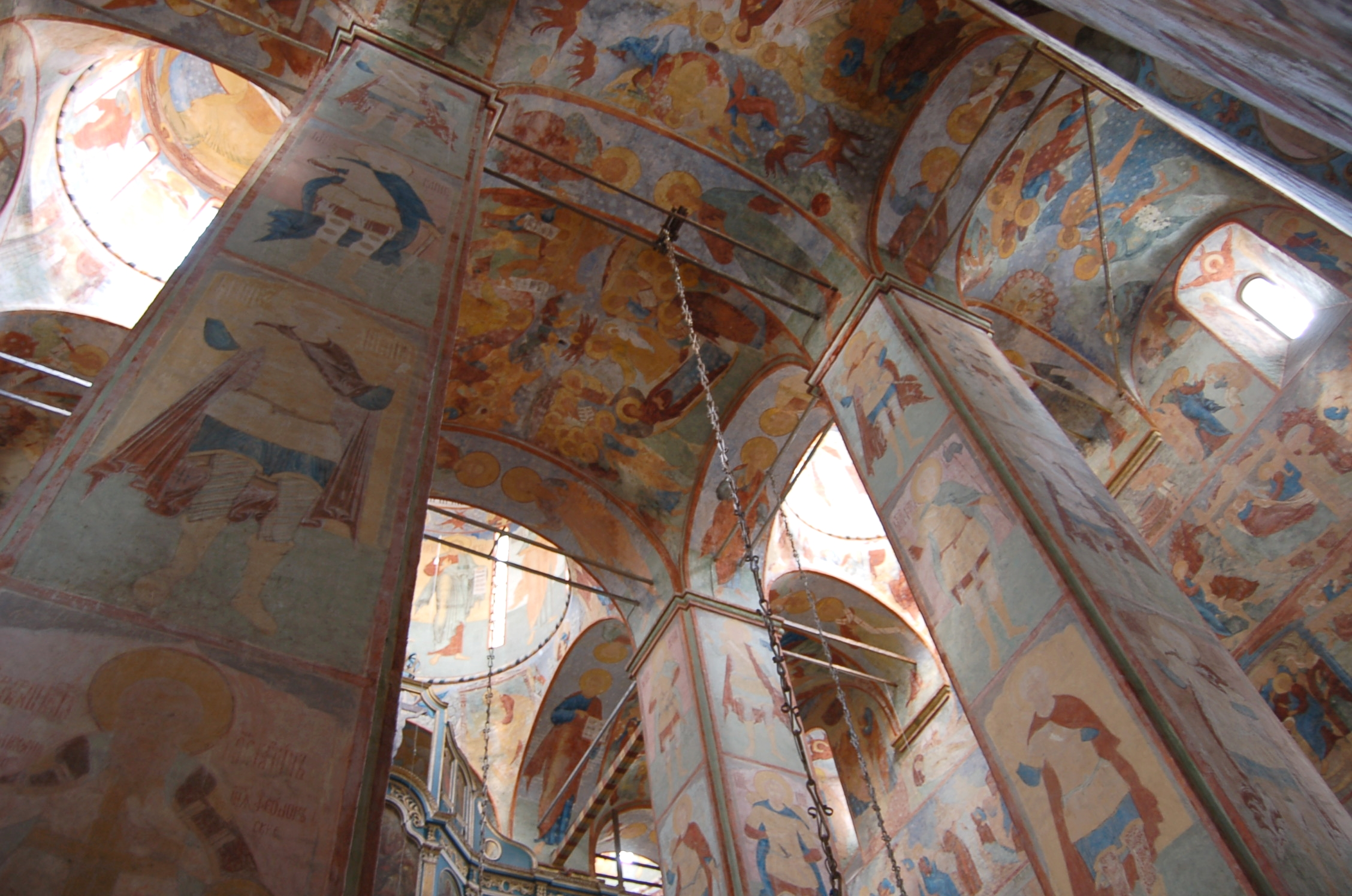 The building is 16th century and the frescoes probably 17th century.